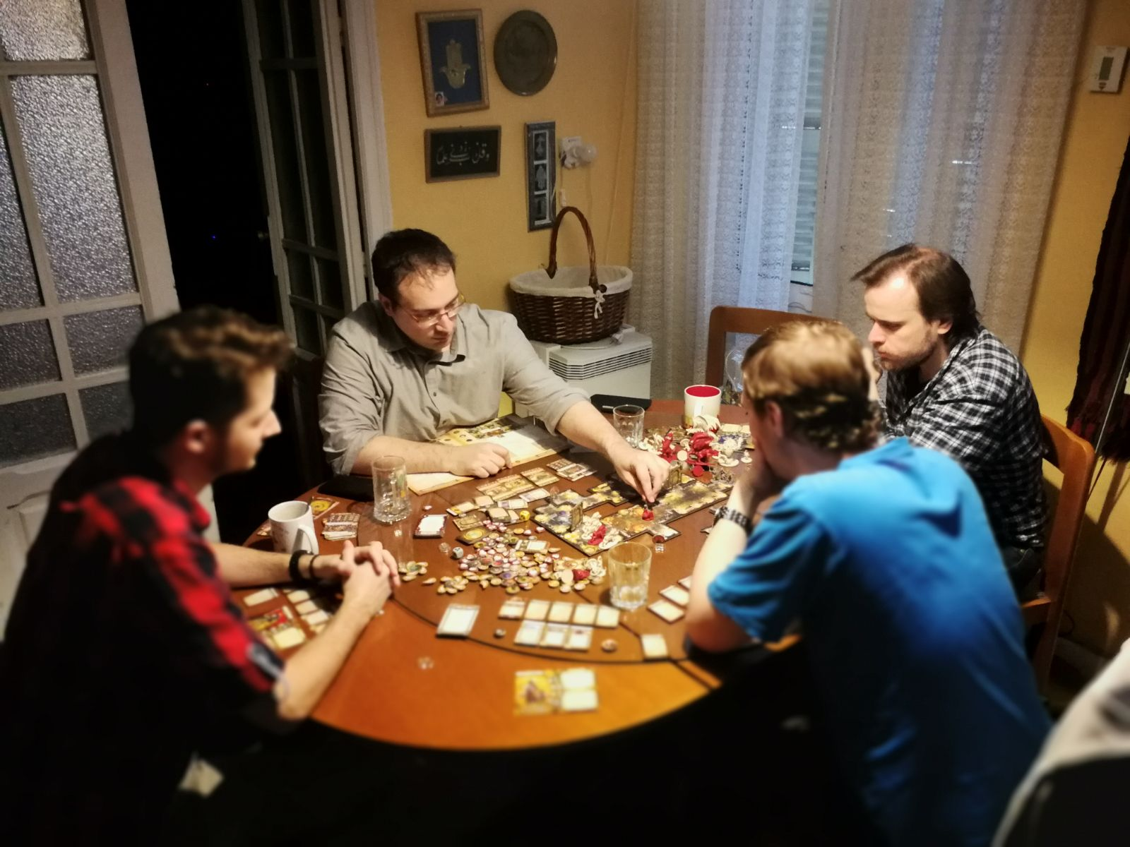 Guys playing descent